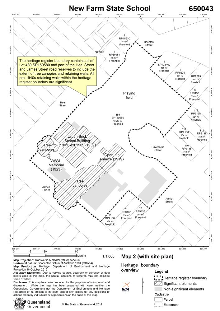 650343 - New Farm SS - Map 2 (2016)